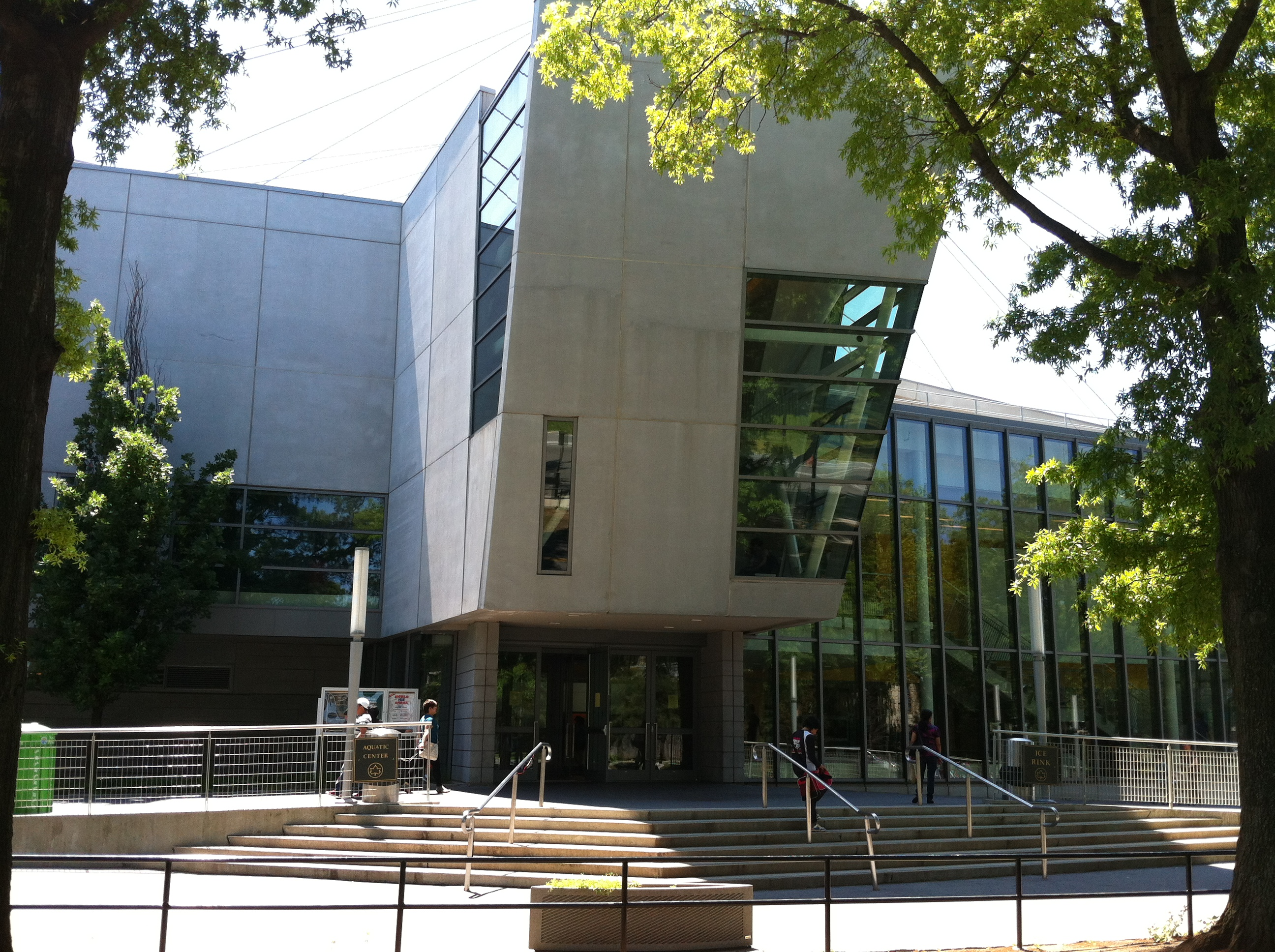 Main plaza of the Natatorium that leads to lobby within. Image by Jennifer Chen.